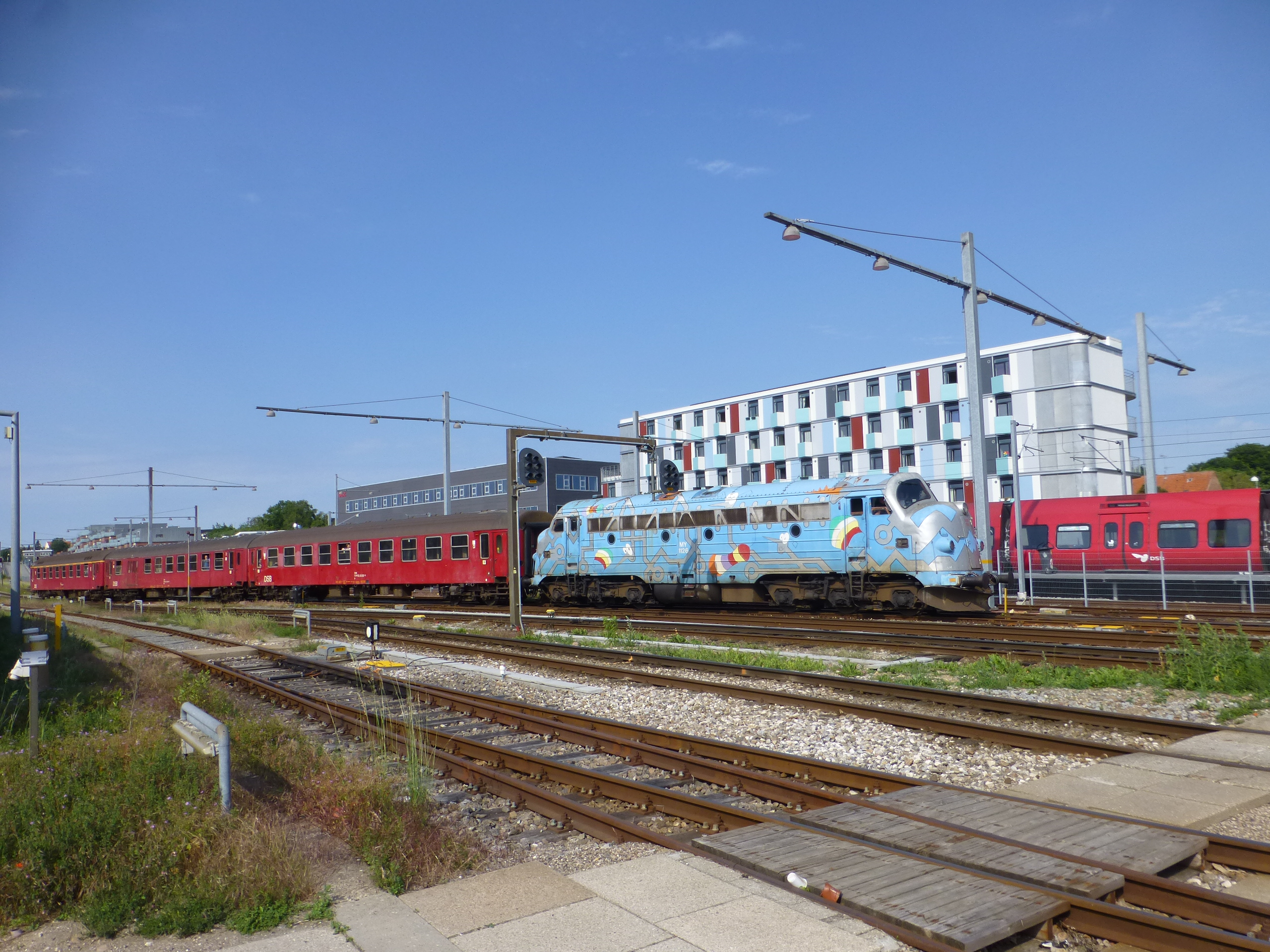 Heritage train from MY Veterantog arriving at Hillerød Station in Denmark.